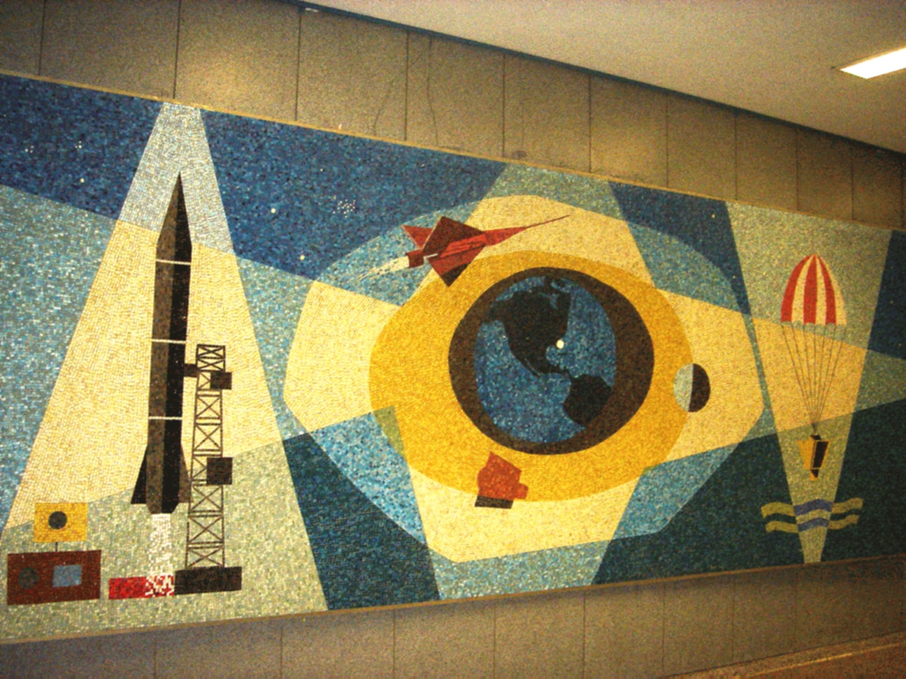 Man in Space, glass mosaic, PS 9, Manhattan, NYC Mural: Photograph